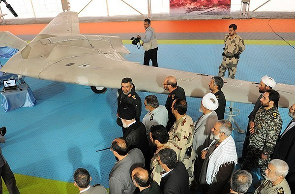 American-built RQ-170 stealth UAV, captured by Iran, at an IRGC-ASF media expo.